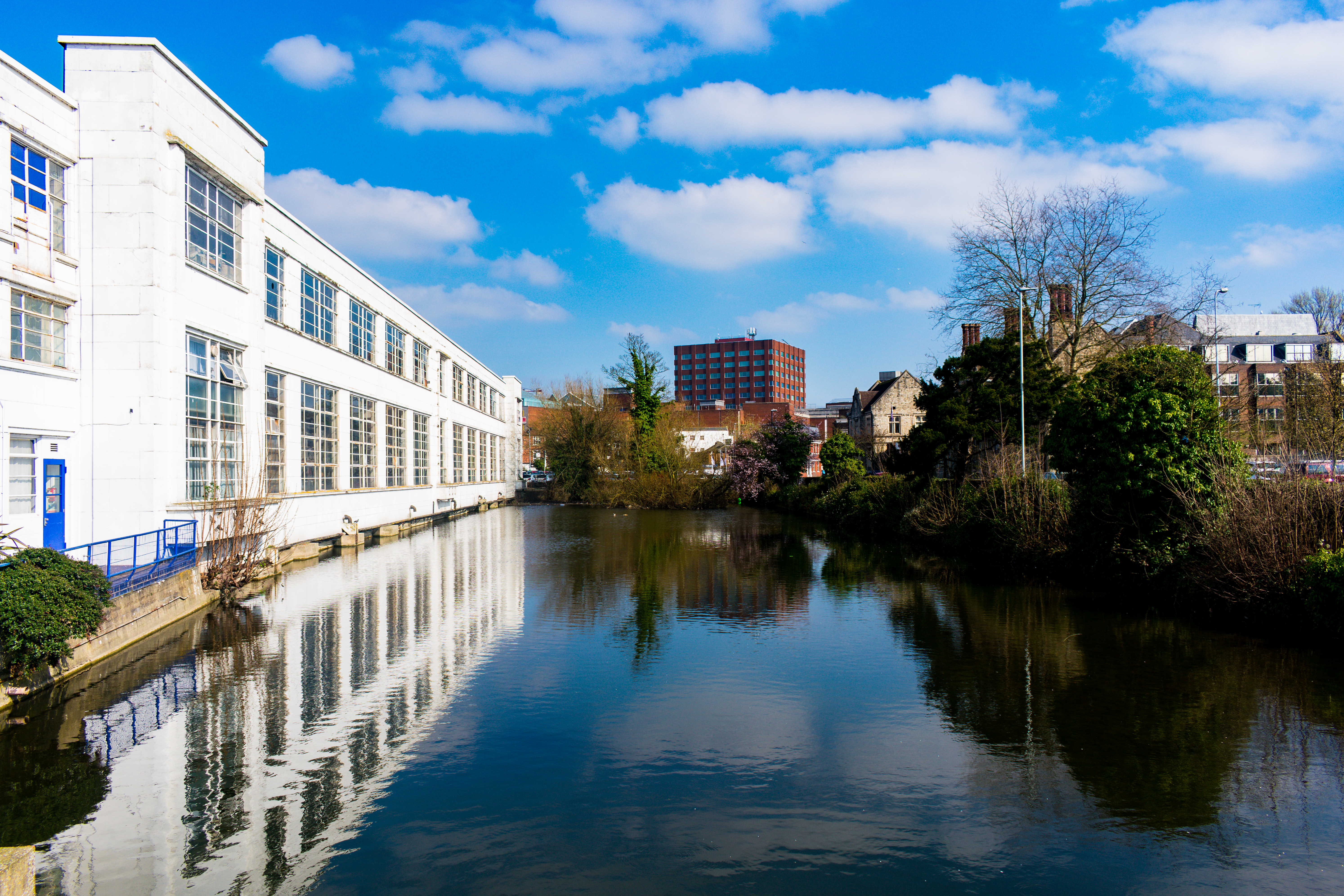 The River Len in Maidstone, flowing into the River Medway behind me.